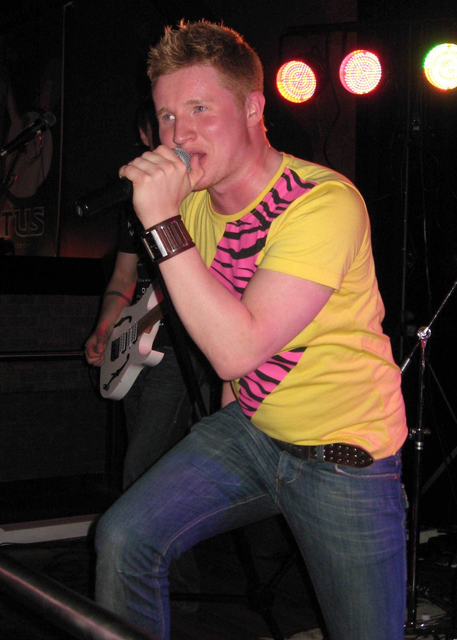 Finnish singer Pete Seppälä live at Status, Forssa, 7.6.2008.